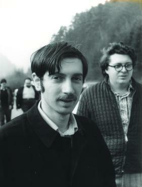 Richard P. Stanley at Oberwolfach